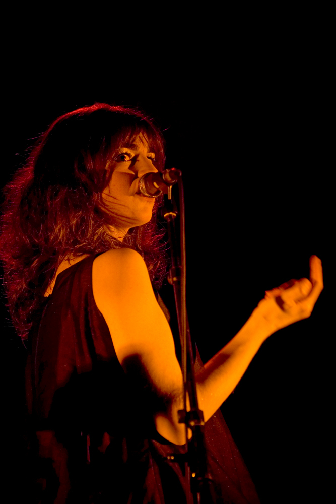 Aula Magna, 26 Março, na 1ª parte dos Shout Out Louds. Personality rights warningAlthough this work is freely licensed or in the public domain, the person(s) shown may have rights that legally restrict certain re-uses unless those depicted consent to such uses. In these cases, a model release or other evidence of consent could protect you from infringement claims.